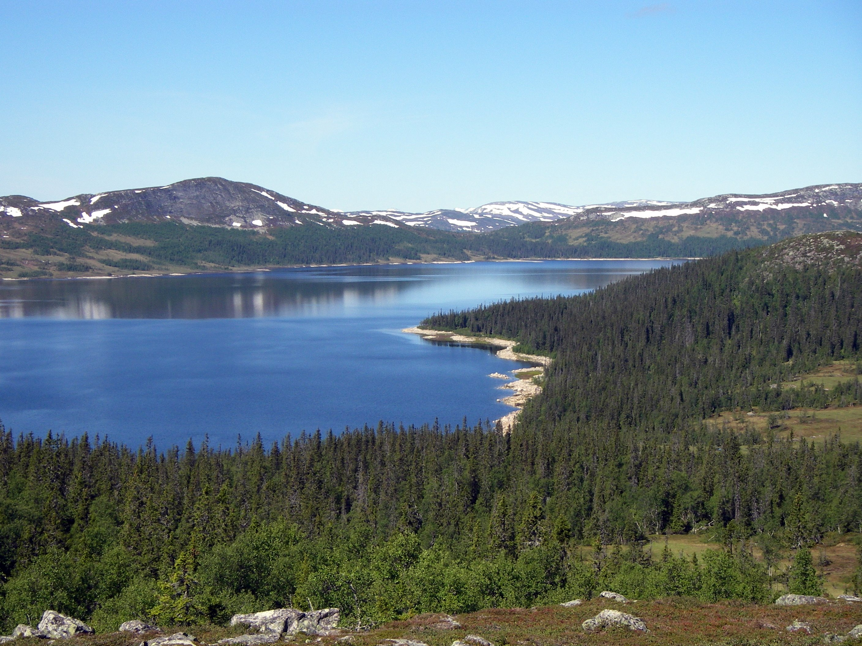 Lake Övre Oldsjön and Oldfjällen mountains in Jämtland, Sweden